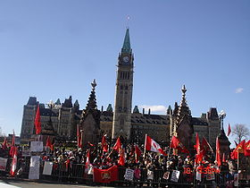 2008 Ottawa Tamil Protests